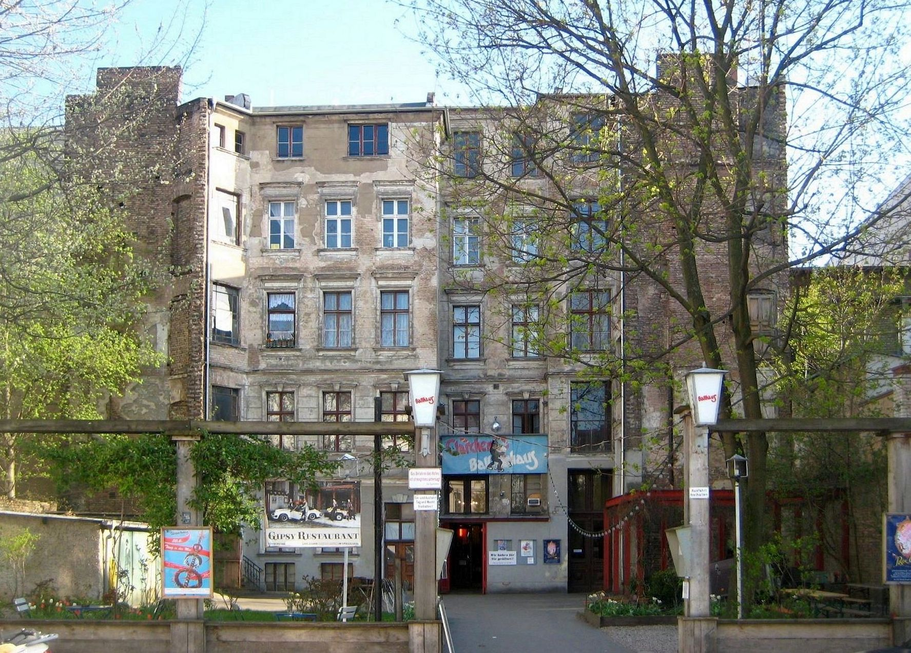 Clärchens Ballhaus (Clärchen's Dance Hall) at Auguststraße No. 24-25 in Berlin-Mitte. The building was constructed around 1890 as rear building to a residential building, which was destroyed in WWII. It is part of the protected historic buildings area Spandauer Vorstadt.